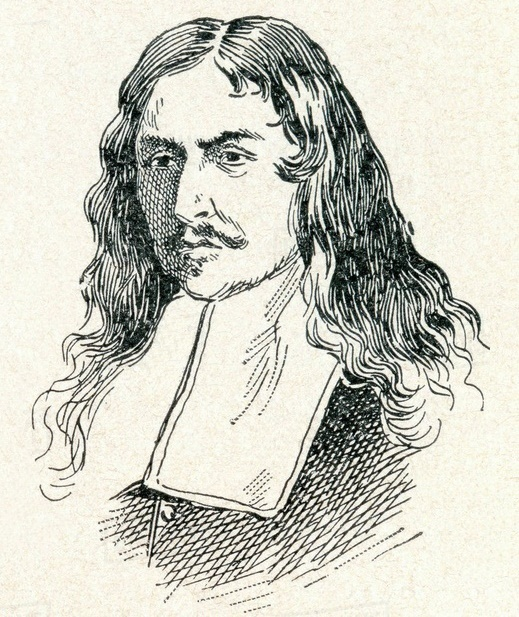 Jean, Comte D'Estrées, 1624 - 1707. Marshal Of France, And An Important Naval Commander Of Louis XIV. From Enciclopedia Ilustrada Segui, Published C. 1900